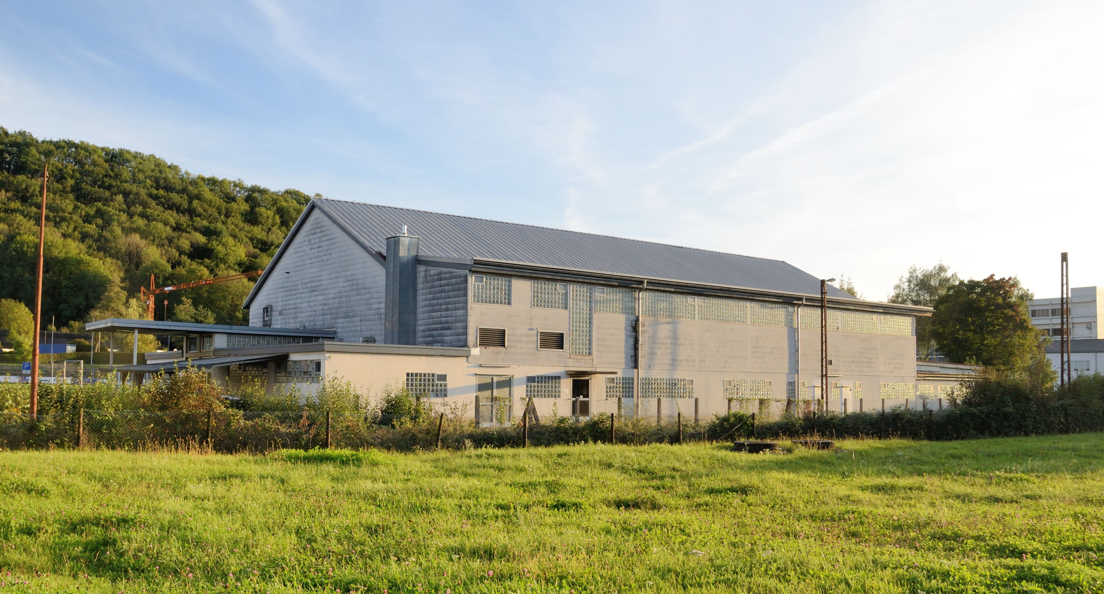 Lörrach-Brombach: sports hall (build 1967)